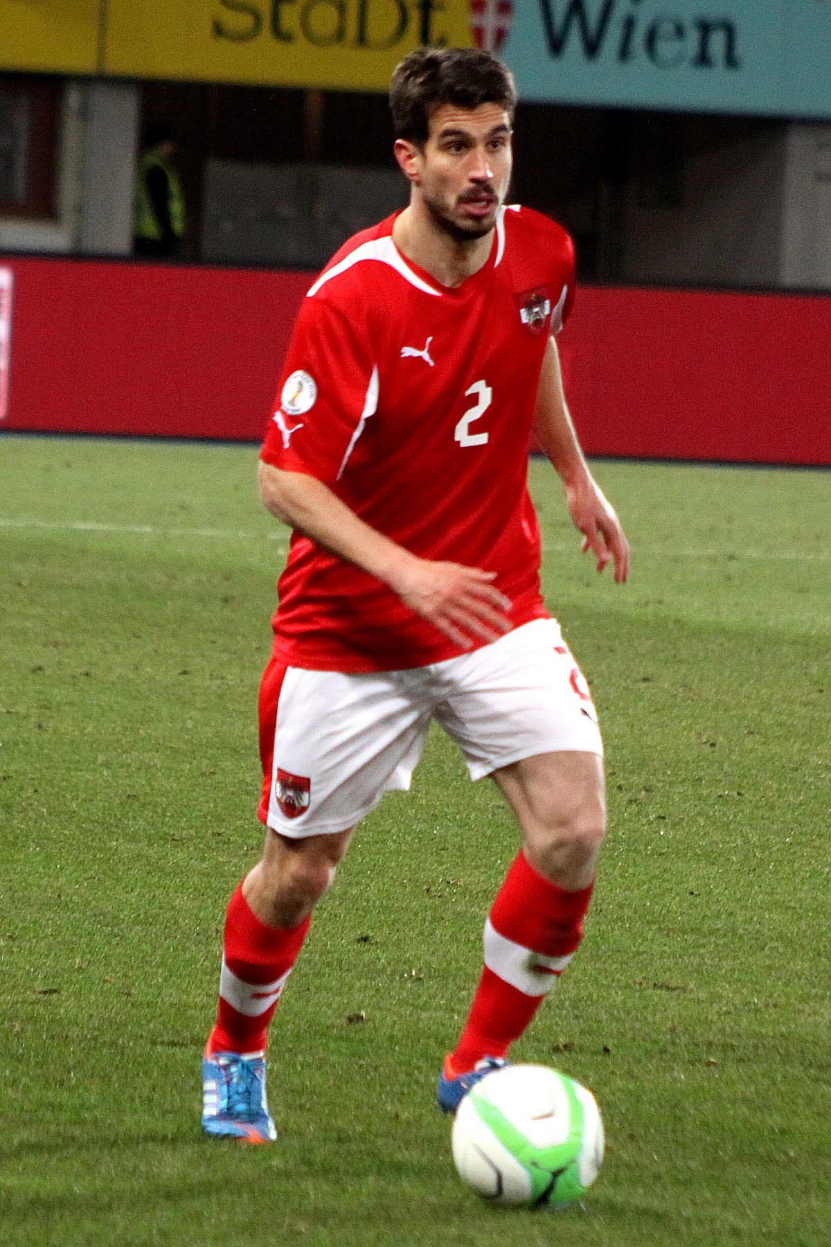 2014 FIFA World Cup qualification (UEFA), Group C: Austria national football team vs. Faroe Islands national football team 6:0 in the Ernst-Happel-Stadion in Vienna at 2013-03-22. – The photo shows György Garics (Austria).